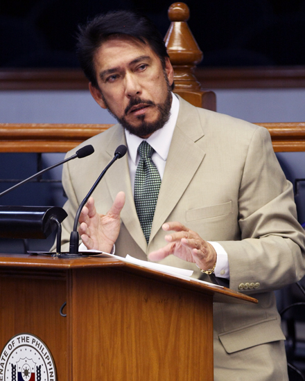 Senate Majority Leader Vicente C. Sotto III